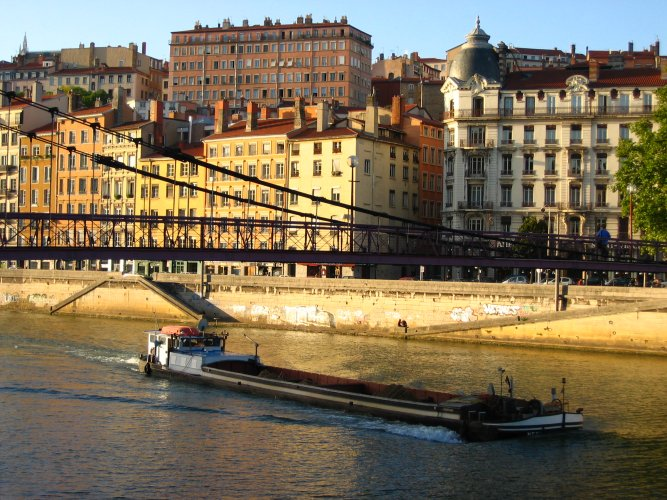 The Saône river in Lyon. Photo taken from the Bondy road, facing North-East, the Saint-Vincent footbridge and the Saint-Antoine road in the foreground, and the Croix-Rousse hill in the background.